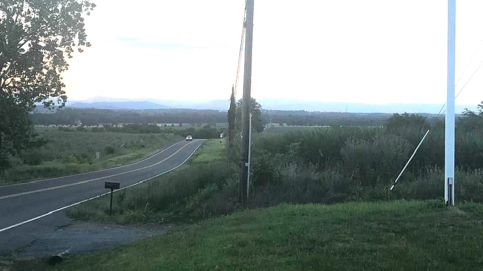 The view from Rude's Hill looking down the Valley Pike (now Rt. 11) towards Mt. Jackson. This is the commanding viewpoint that Confederate forces had of Union forces approaching from Mt. Jackson